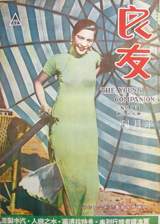 Cover of Liangyou magazine, #91, featuring actress Lai Cheuk-Cheuk (黎灼灼).[1]